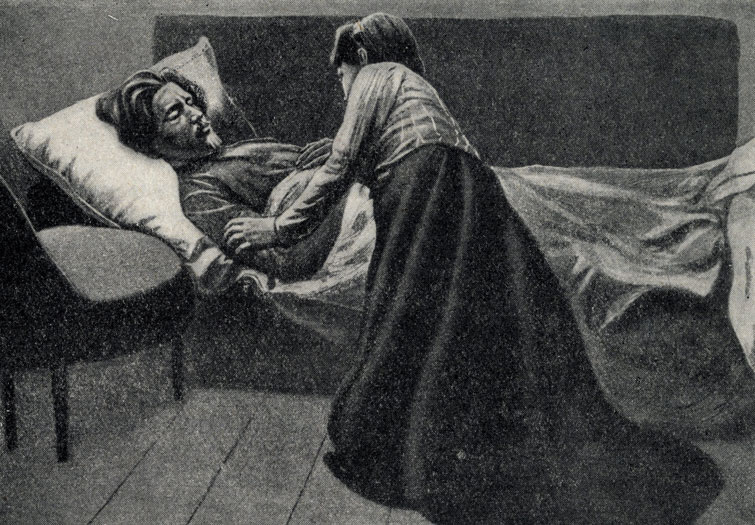 'Grasshopper'. Chekhov. Figure IA Bodyanskyi 1904